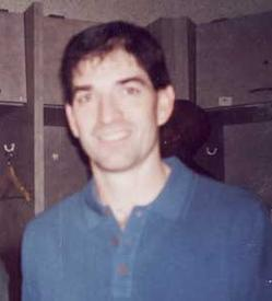 Former Utah Jazz basketball player John Stockton in 2006.